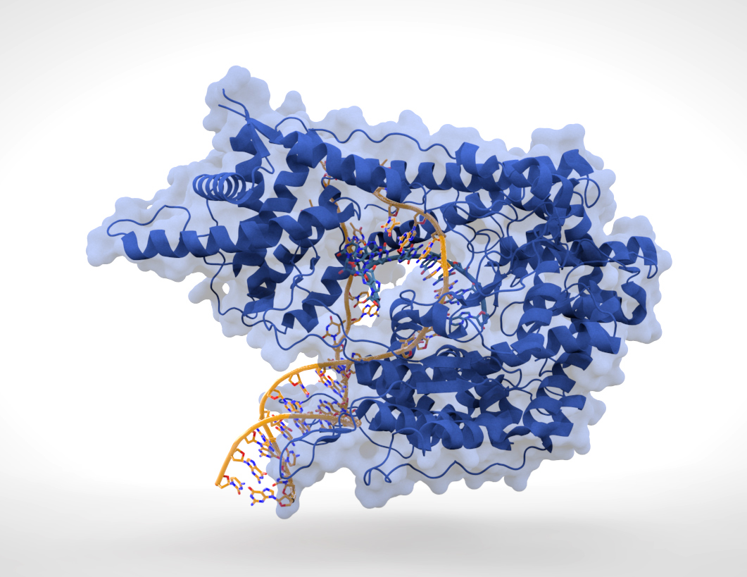 Cartoon representation of T7 RNA Polymerase (blue) producing mRNA (green) from a double-stranded DNA template (orange). Based on PDB ID 1MSW